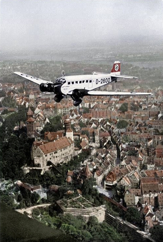 This is a retouched picture, which means that it has been digitally altered from its original version. Modifications: recolored. The original can be viewed here: Bundesarchiv Bild 146-1987-084-06, Junkers-Flugzeuge.- D-2600.jpg: . Modifications made by Ruffneck88. Junkers-Flugzeuge.- D-2600 Photographer Hoffmann, HeinrichArchive description Description provided by the archive when the original description is incomplete or wrong. You can help by reporting errors and typos at Commons:Bundesarchiv/Error reports. Sammelwerk Nr. 15 "Adolf Hitler, Bild-Nr. 14, Gruppe 66Title Junkers-Flugzeuge.- D-2600 Original caption Mit der D-2600 über Nürnberg. Ankunft auf dem Reichsparteitag 1934Date 1934date QS:P571,+1934-00-00T00:00:00Z/9Collection German Federal Archives Native nameDas BundesarchivLocationKoblenz (headquarters)Coordinates50° 20′ 32.71″ N, 7° 34′ 21.22″ E Established1946Web page control : Q685753 VIAF: 137346469 ISNI: 0000 0004 0555 2728 LCCN: n92025526 NLA: 36455393 Open Library: OL55798A WorldCat institution QS:P195,Q685753Current location Sammlung von Repro-Negativen (Bild 146)Accession number Bild 146-1987-084-06 Source This image was provided to Wikimedia Commons by the German Federal Archive (Deutsches Bundesarchiv) as part of a cooperation project. The German Federal Archive guarantees an authentic representation only using the originals (negative and/or positive), resp. the digitalization of the originals as provided by the Digital Image Archive. Mit der D-2600 über Nürnberg. Ankunft auf dem Reichsparteitag 1934